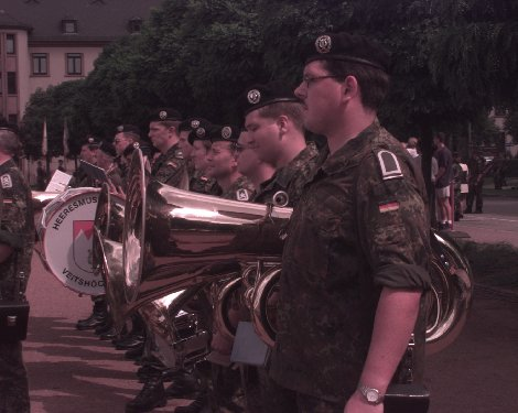 Members of the 12th German Army Band (Heeresmusikkorps 12 from Veitshhoechheim) played the German national anthem during the ceremony.